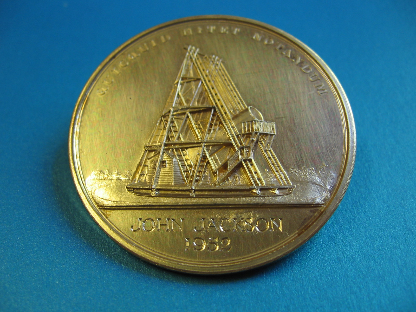 This file was uploaded as part of a GLAMWiki partnership with Paisley Museum. You can find out more on the Museums Galleries Scotland project page. This tag does not indicate the copyright status of the attached work. A normal copyright tag is still required. See Commons:Licensing for more information.